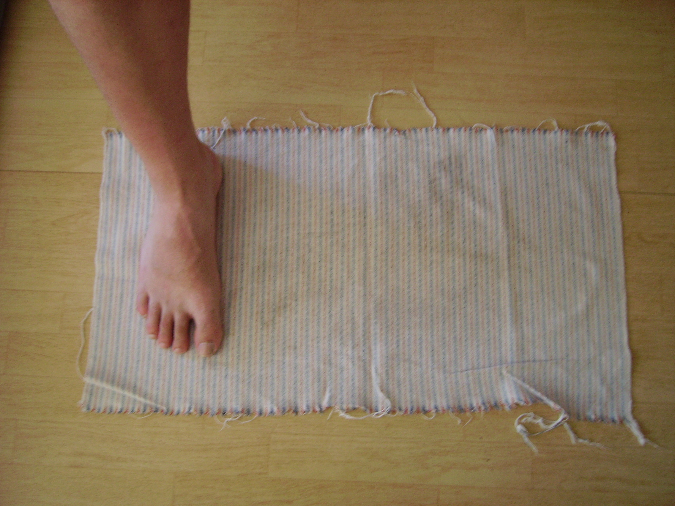 Foot cloth was used in Finnish Defence Forces in some extent until the turn of 1990s